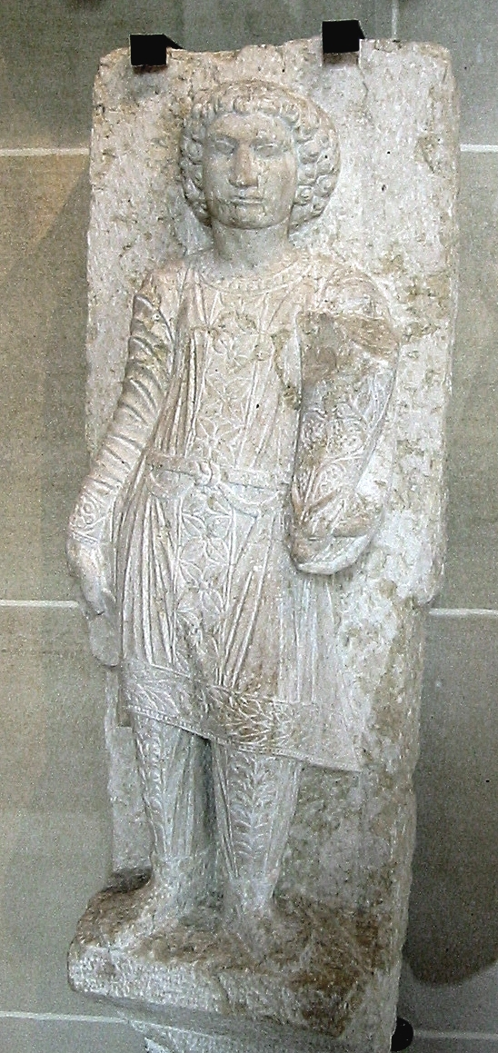 Young man with Parthian costume. Palmyra, Syria, early 3rd century CE. Decoration of a funerary stela.